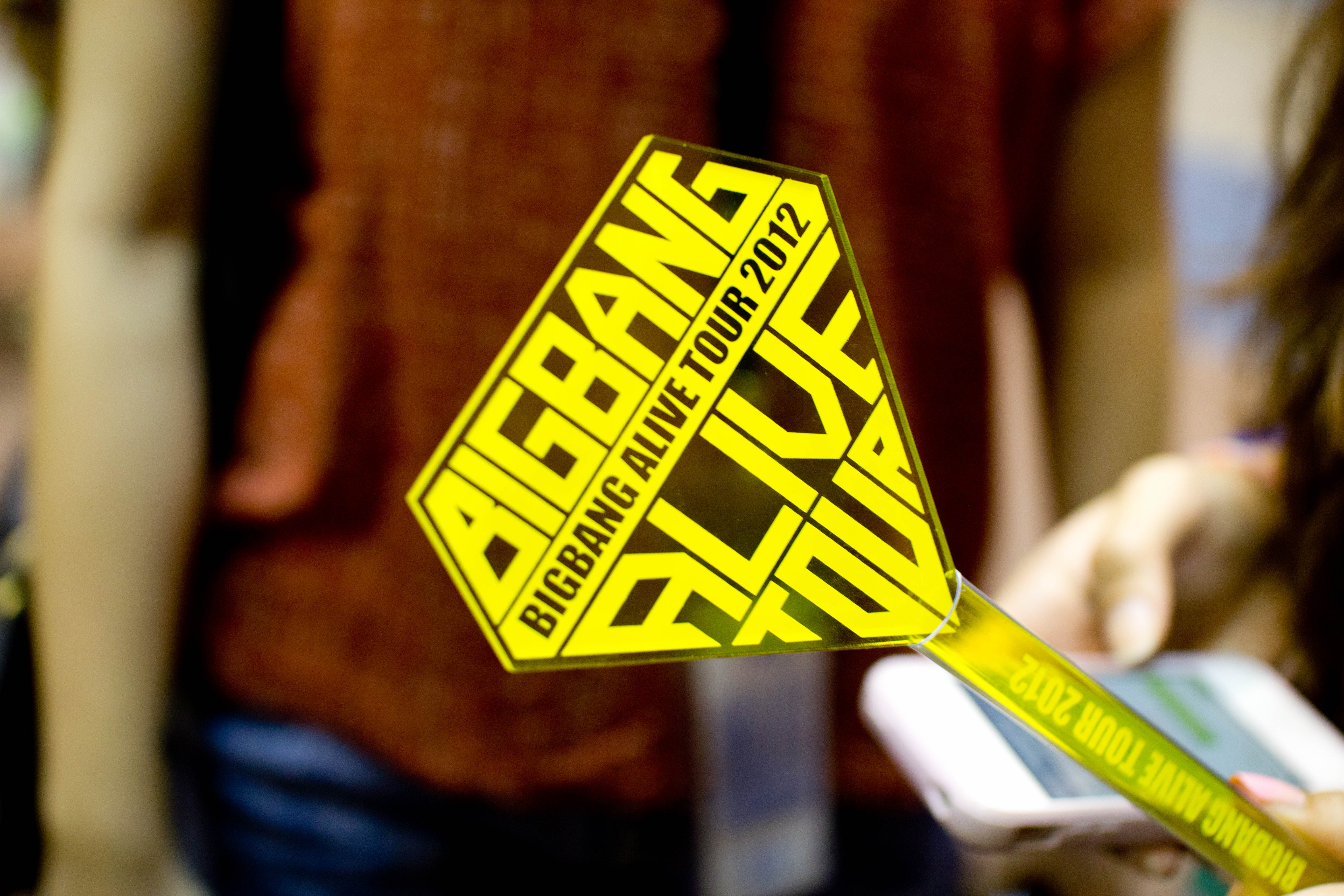 Bigbang Alive Tour fan merchandise, 2012